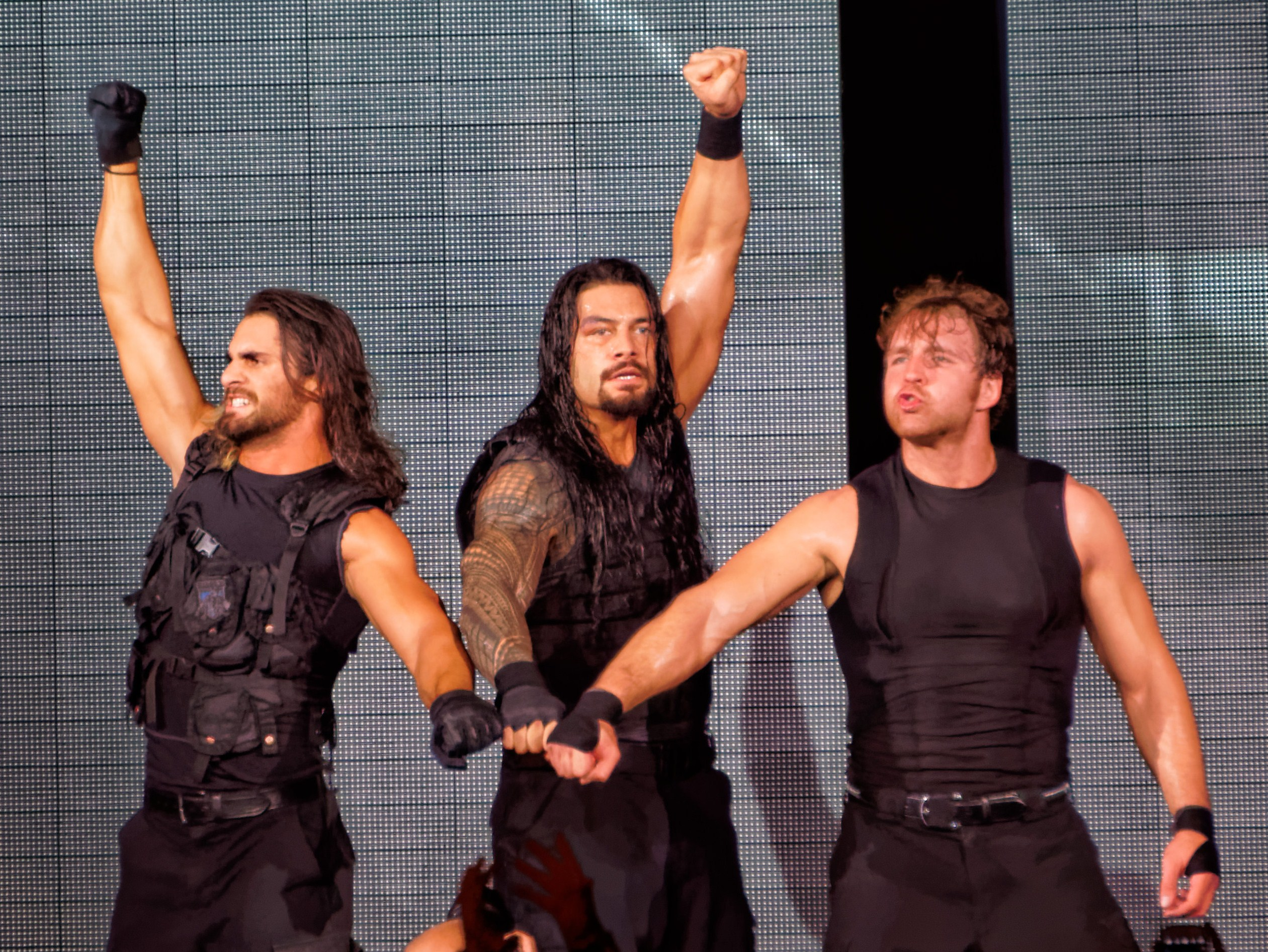 The Shield (left to right: Seth Rollins, Roman Reigns, and Dean Ambrose) doing their signature pose in May 2014. Cropped to remove fans in front.